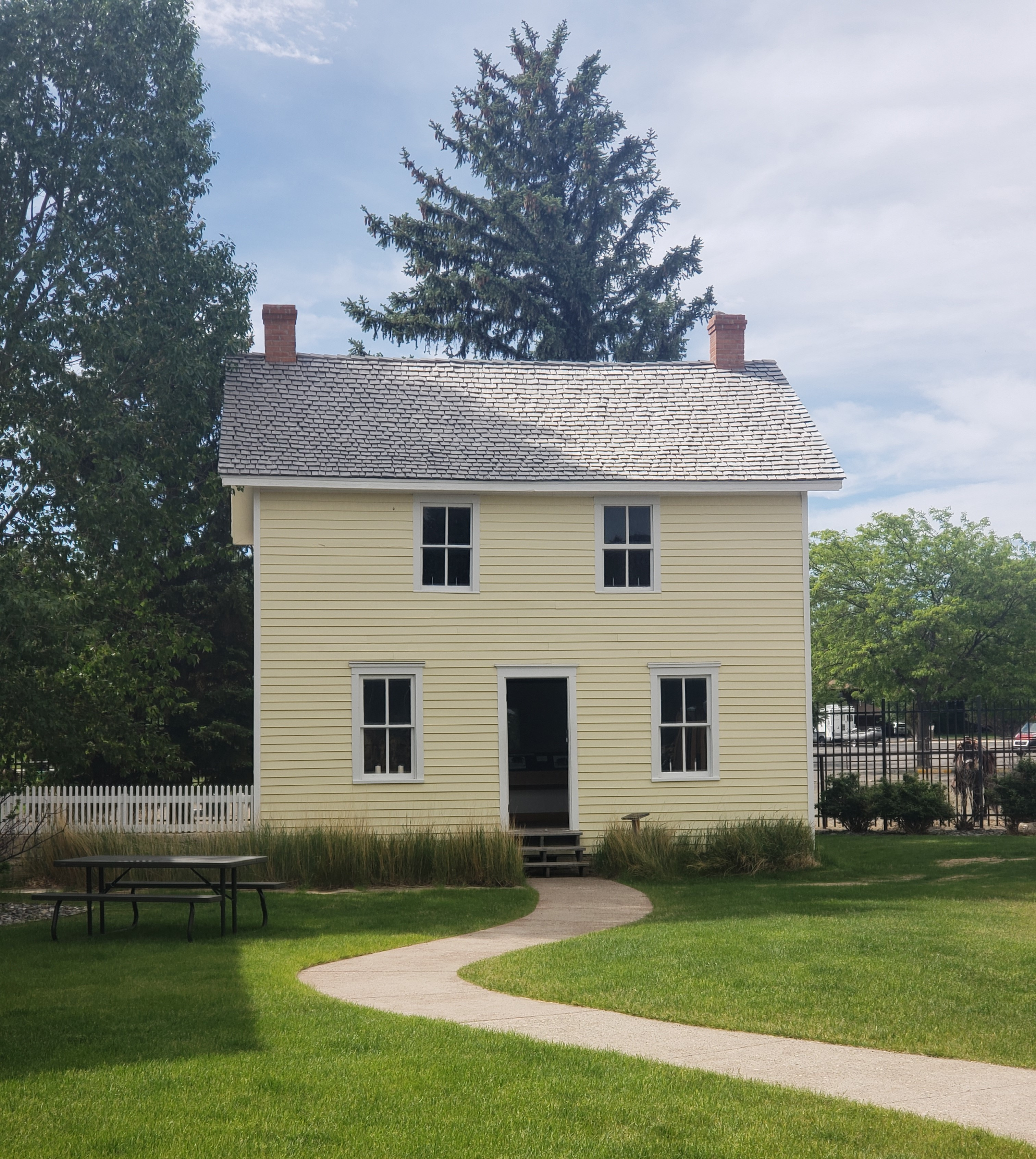 The Buffalo Bill Boyhood Home, in Cody, Wyoming, in the year 2020. Listed on the National Register of Historic Places.